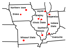 Locations of current Missouri Valley Conference full member institutions.